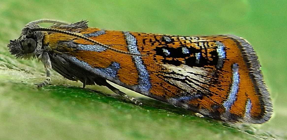 Olethreutes arcuella from Southern Germany, on willow leaf Ricoh R8